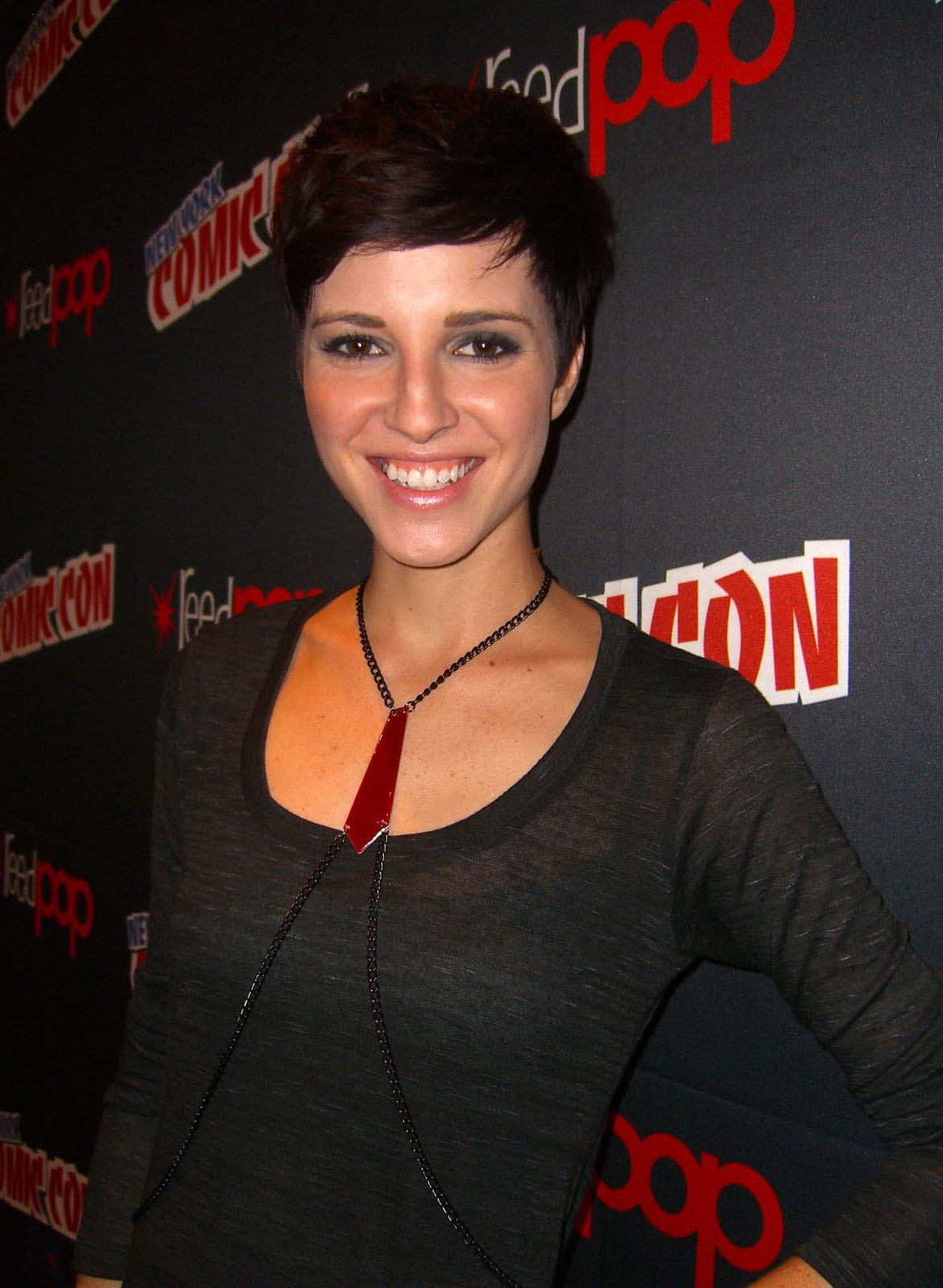 Actress Emma Fitzpatrick on Day 4 of the 2012 New York Comic Con, Sunday October 14, 2012 at the Jacob K. Javits Convention Center in Manhattan. This photo was created by Luigi Novi. It is not in the public domain, and use of this file outside of the licensing terms is a copyright violation.